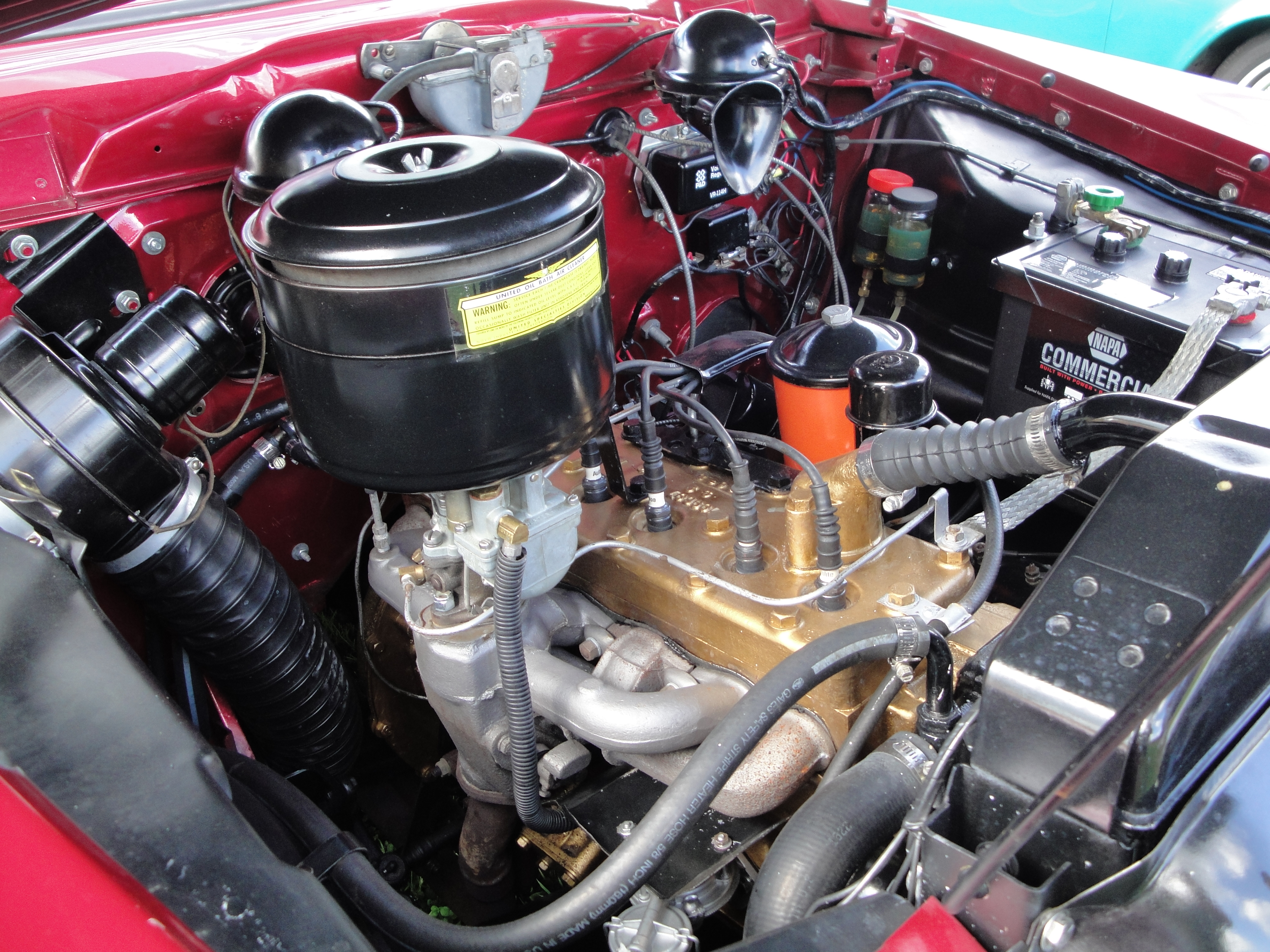 Engine bay 1949 Studebaker Champion 2012 Memorial Day Car Show North Star Chapter of the Studebaker Drivers Club